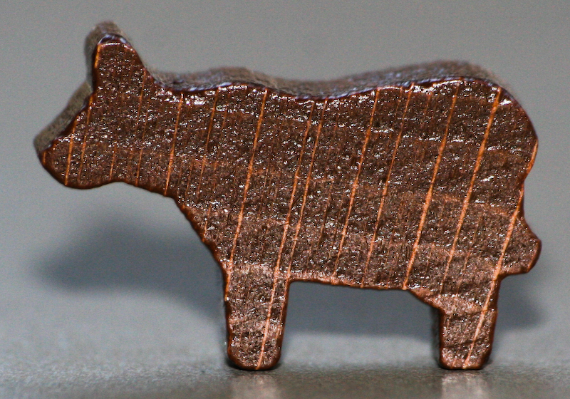 Animal from the board game Agricola